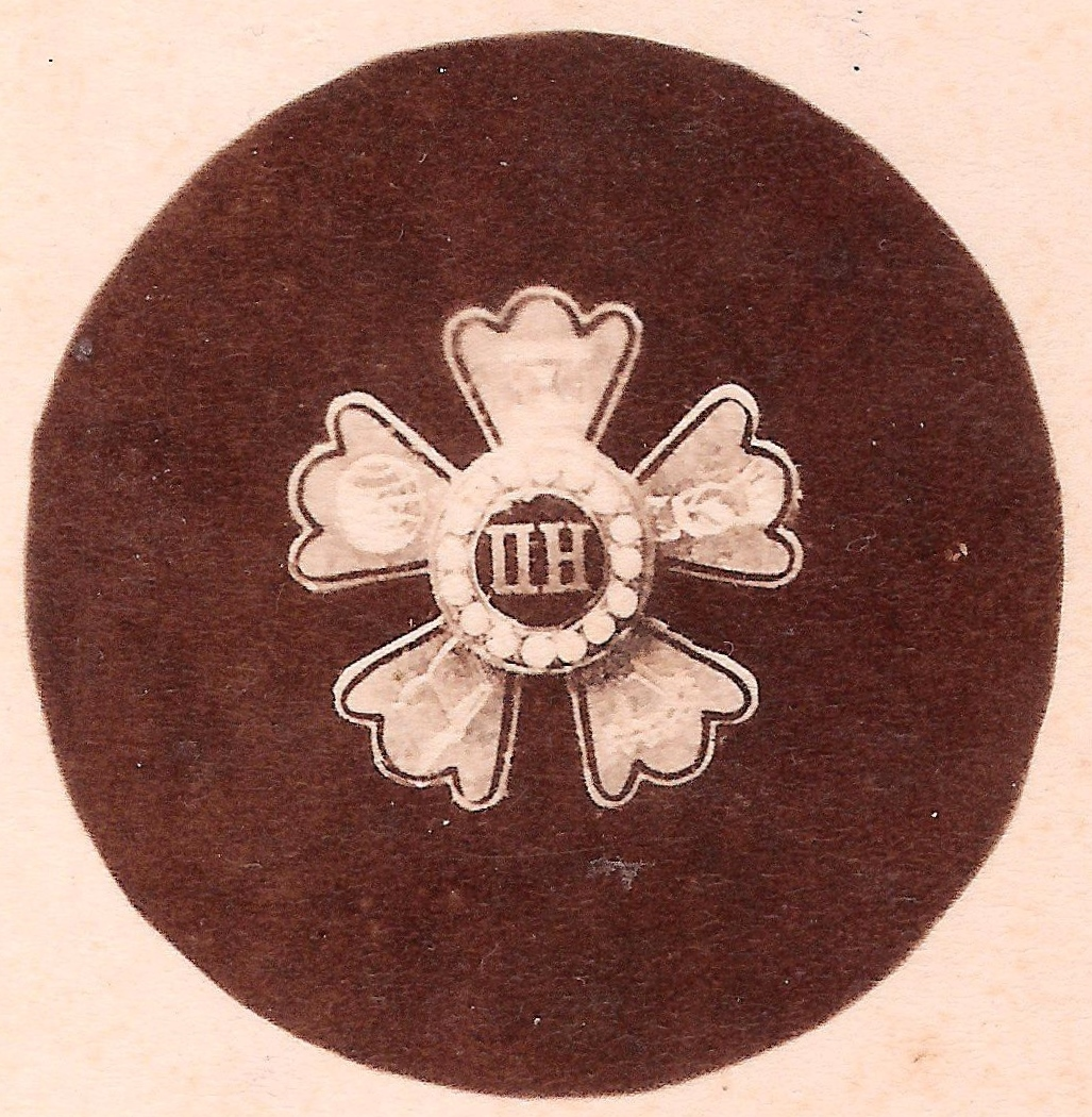 Pi Eta Pin Issued Prior to 1883 (Pi Eta Scientific Society, Rensselaer Polytechnic Institute)